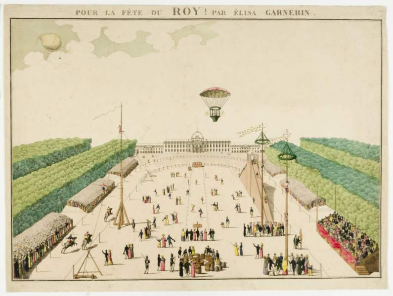 Poster for a balloon trial by Élisa Garnerin at the Fête du Roy in Paris. Possibly the 1815 event.